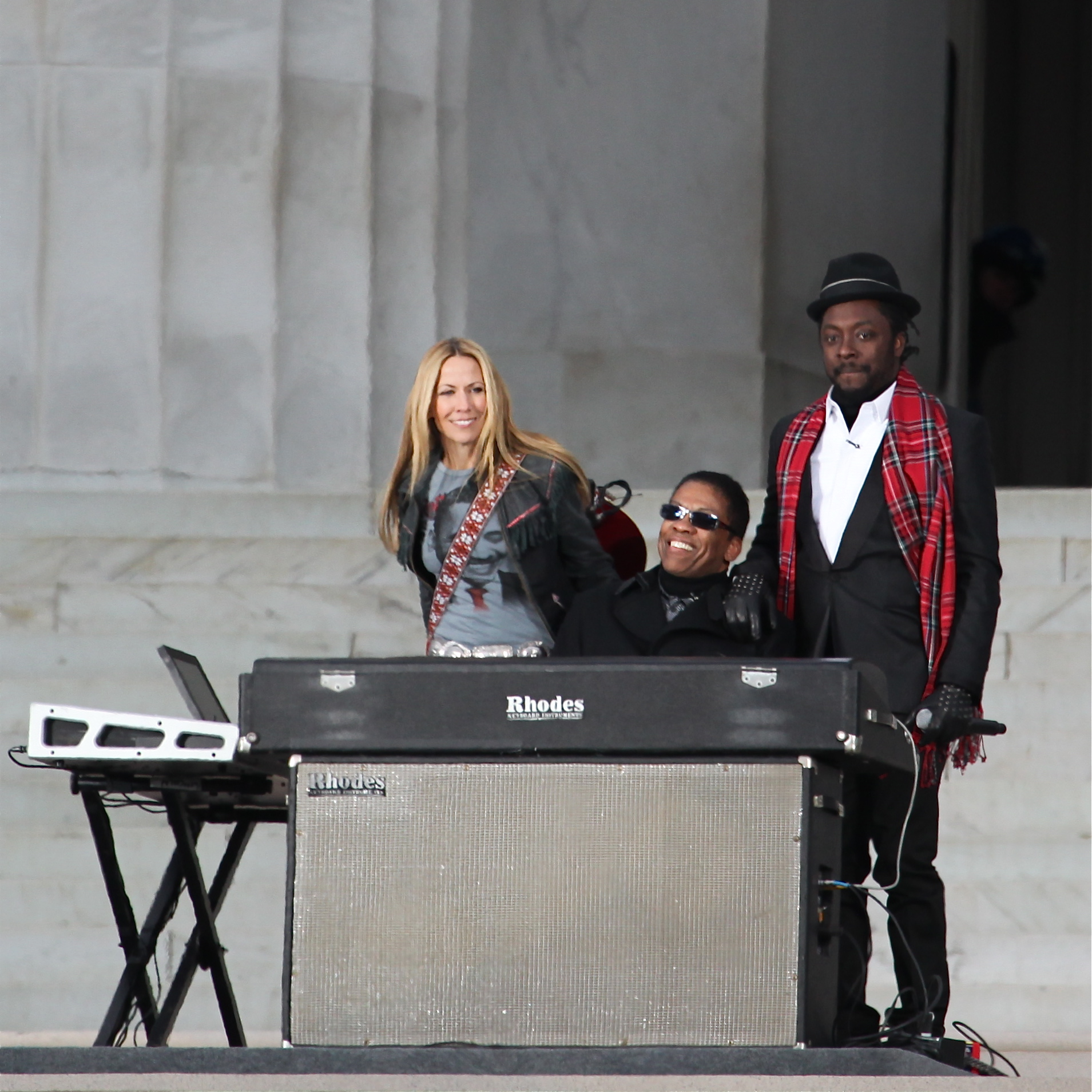 Sheryl Crow (left), will.i.am (right), and Herbie Hancock (seated) finish their performance of the Bob Marley song "One Love" at the We Are One: The Obama Inaugural Celebration at the Lincoln Memorial concert.